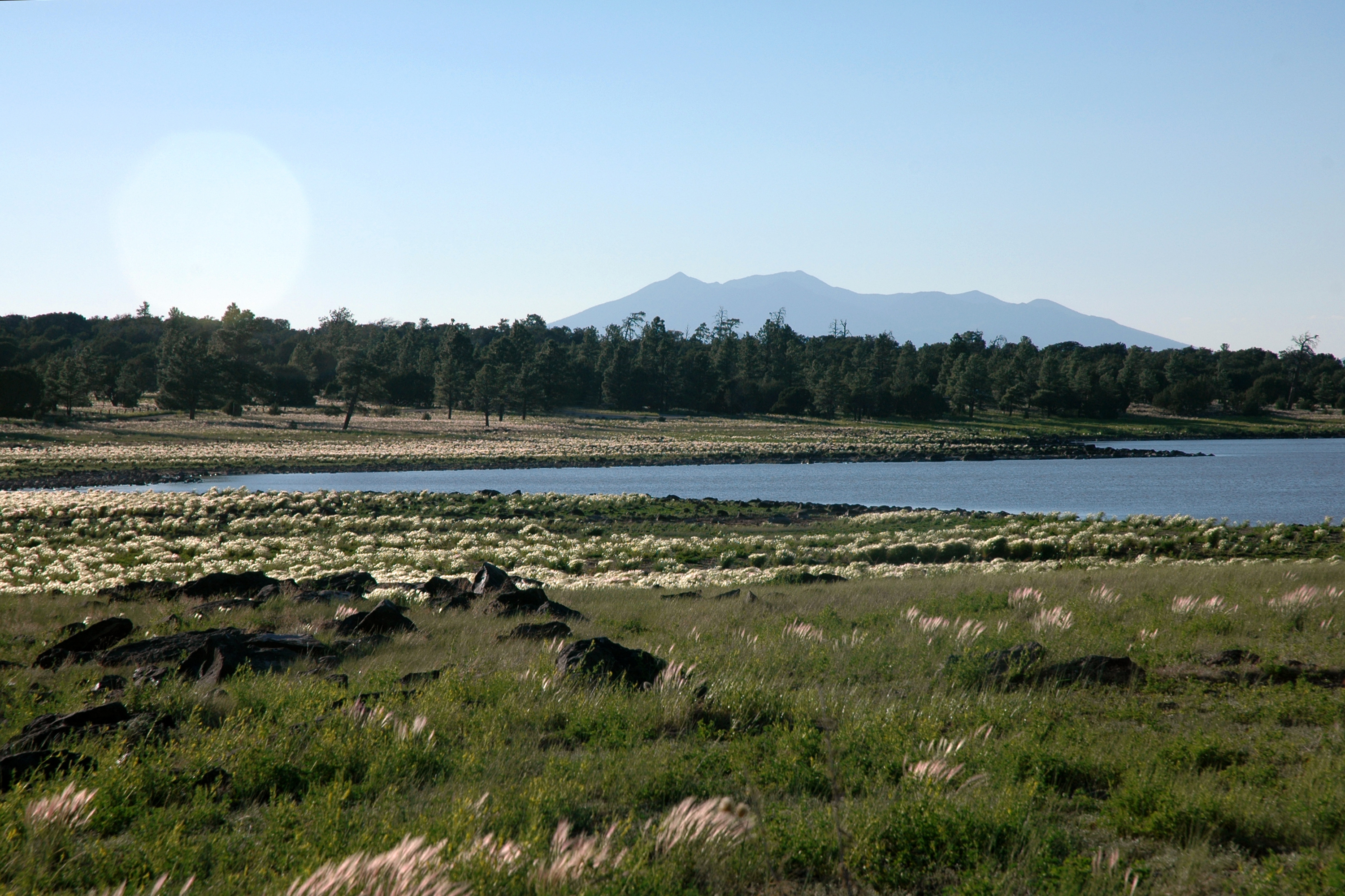 The southern end of Ashurst Lake in Arizona. Late afternoon, early summer.